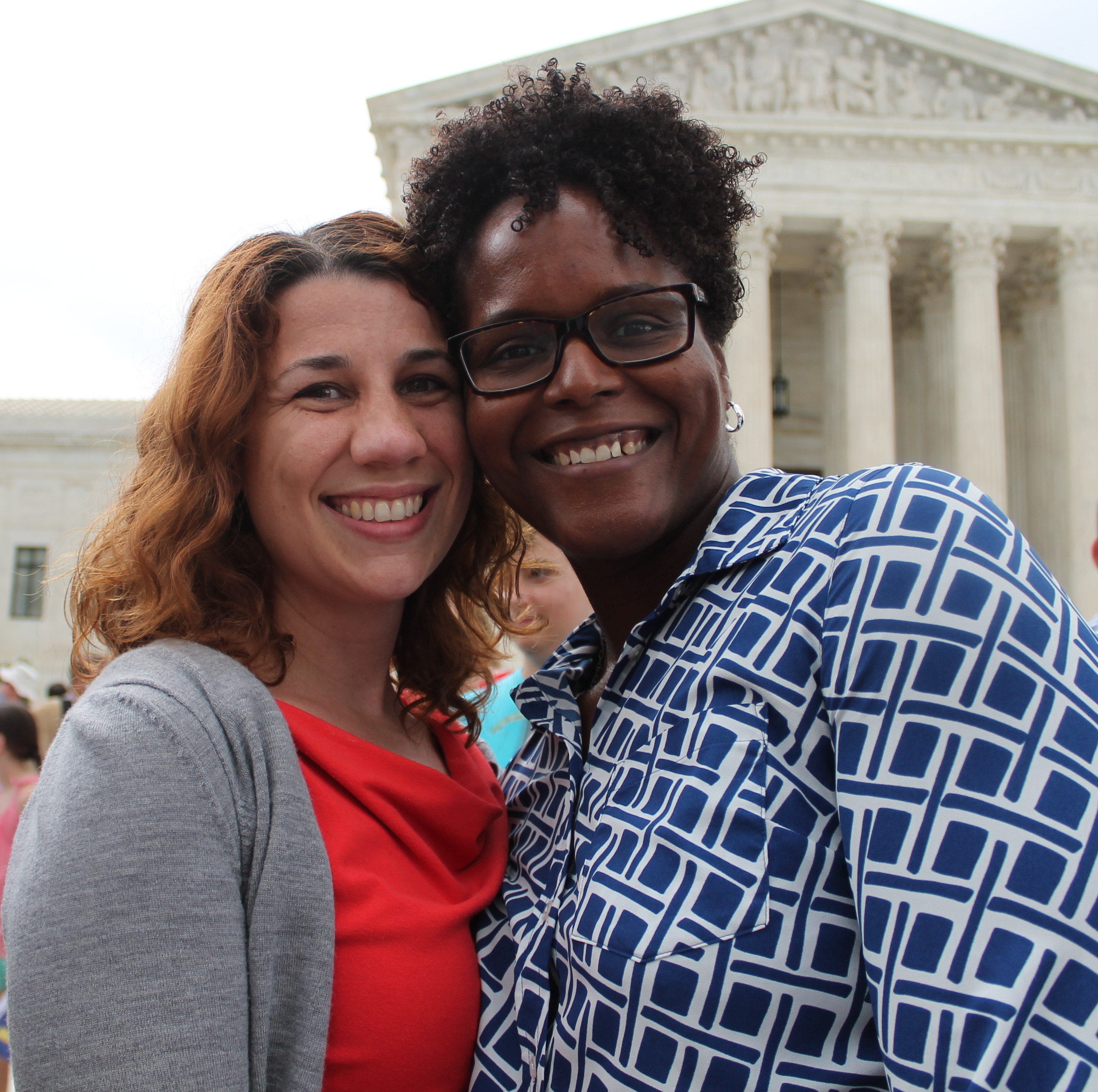 MARRIAGE EQUALITY DECISION DAY RALLY in front of the US Supreme Court on First Street between East Capitol Street and Maryland Avenue, NE, Washington DC on Friday morning, 26 June 2015 by Elvert Barnes Protest Photography Marriage Equality / USA Learn more about the SCOTUS Obergefell v. Hodges case on Wikipedia at Visit Elvert Barnes MARRIAGE EQUALITY same-sex civil unions ongoing project at